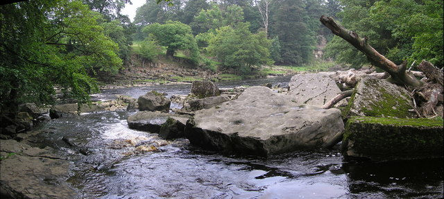 'Meeting of the Waters' The River Greta (foreground) joins the River Tees here.